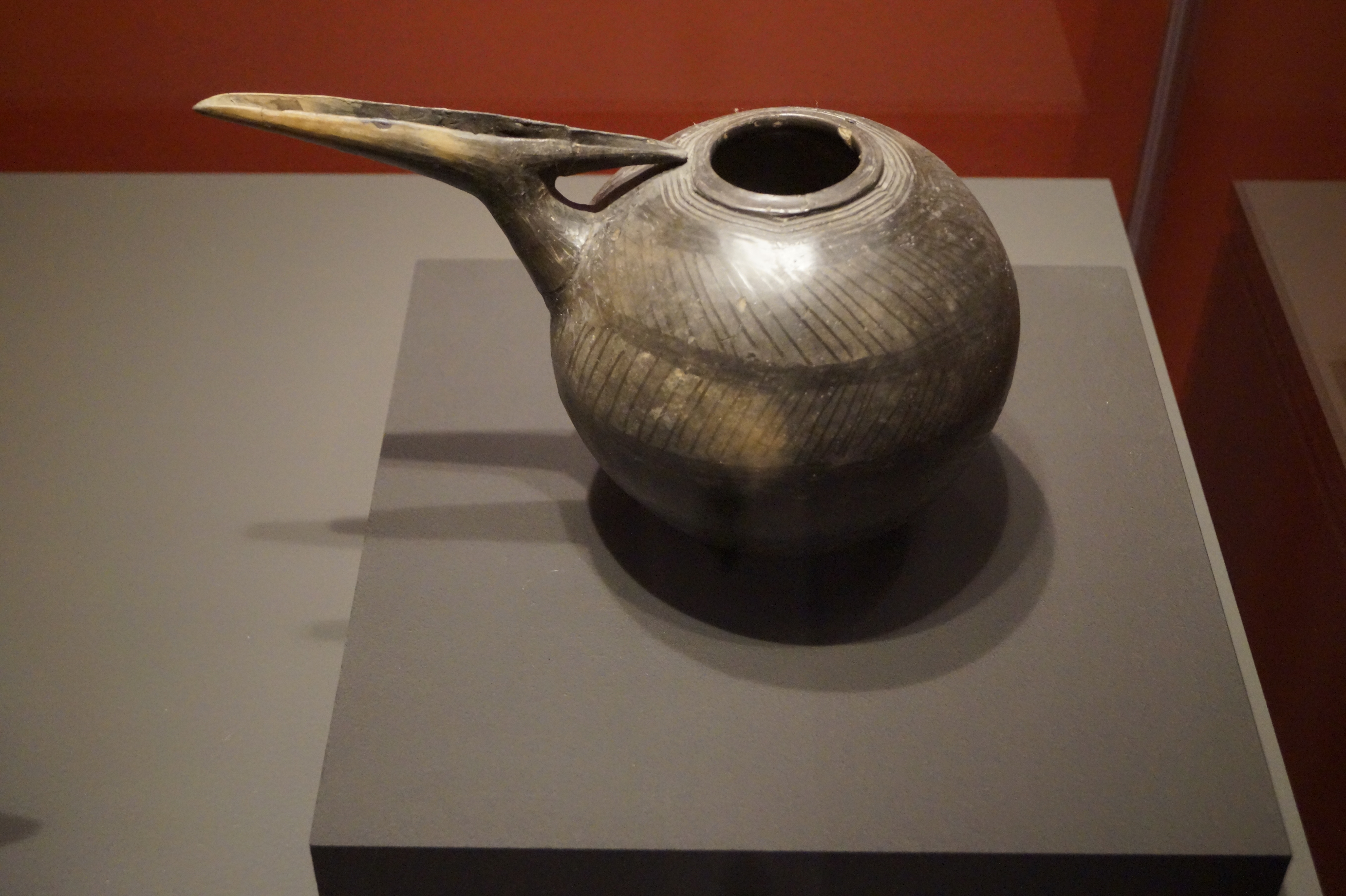 Ancient pottery from Tepe Hissar Layer III, 2300-1900 BC